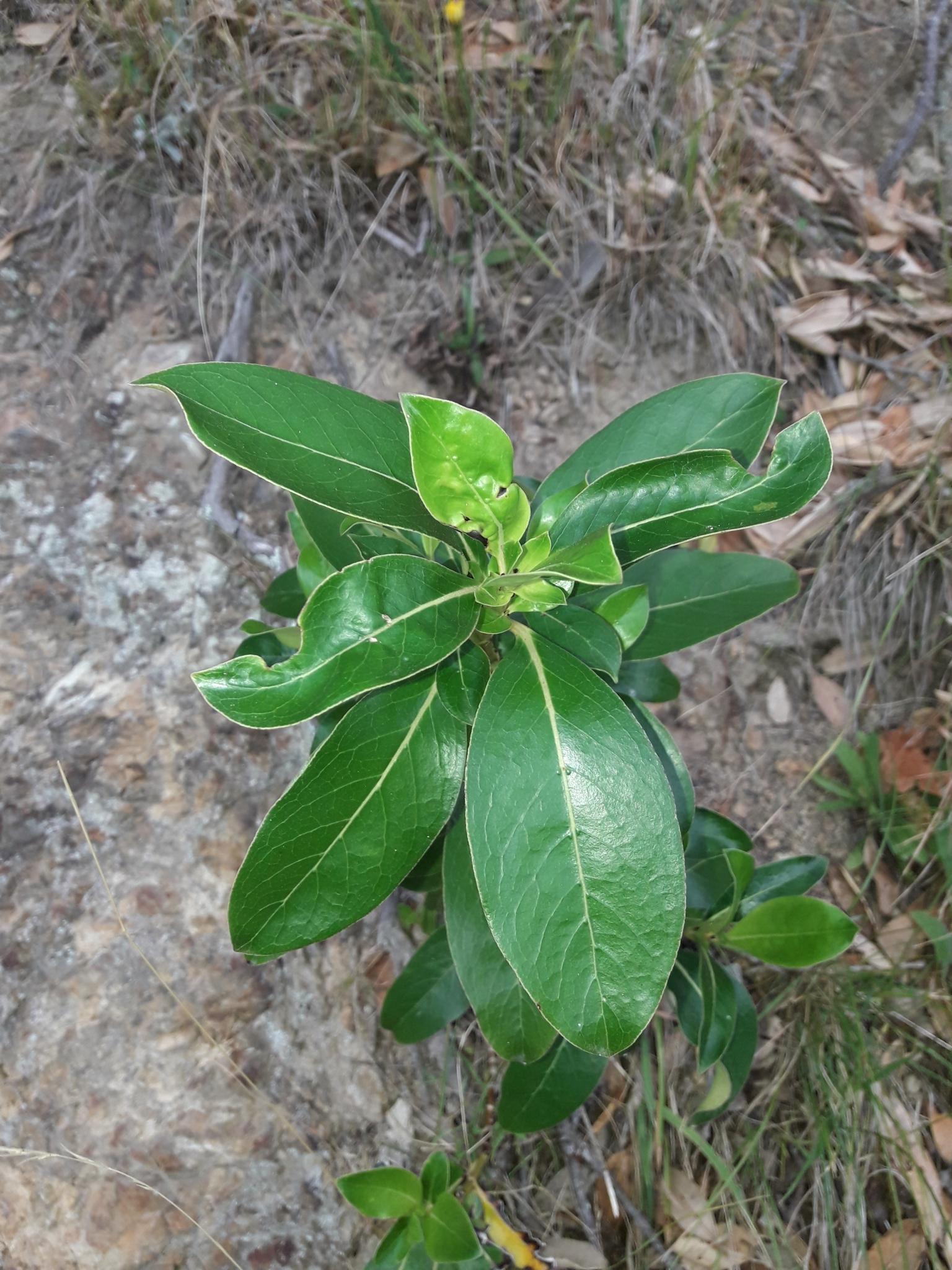 Coprosma robusta (Q5168972) by Naturewatchwidow via iNaturalist observation at the Wellington Botanic Garden BioBlitz 2019 (Q62770398)